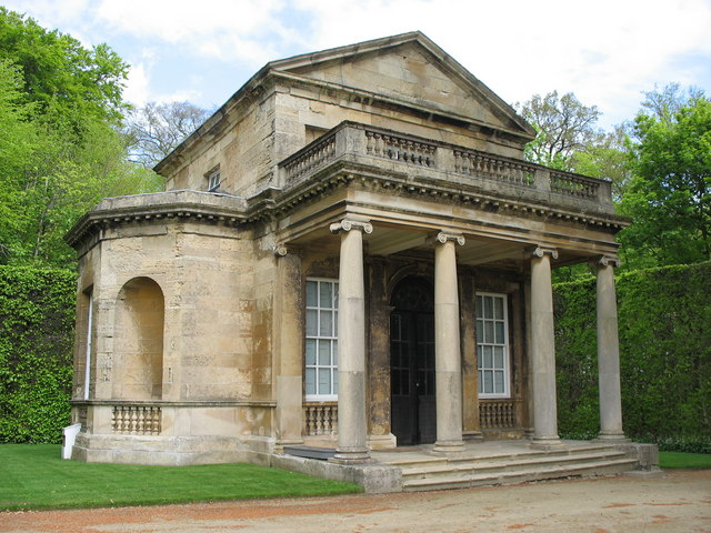 Photograph of the chapel in Bramham Park